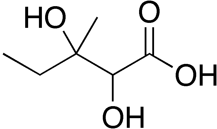 chemical structure of 2,3-Dihydroxy-3-methylpentanoic acid